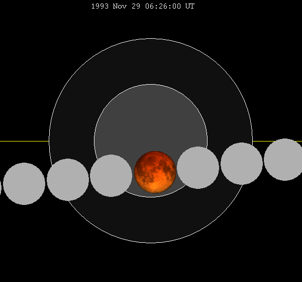 November 1993 lunar eclipse chart of moon's total lunar eclipse path through the earth's shadow. thumb